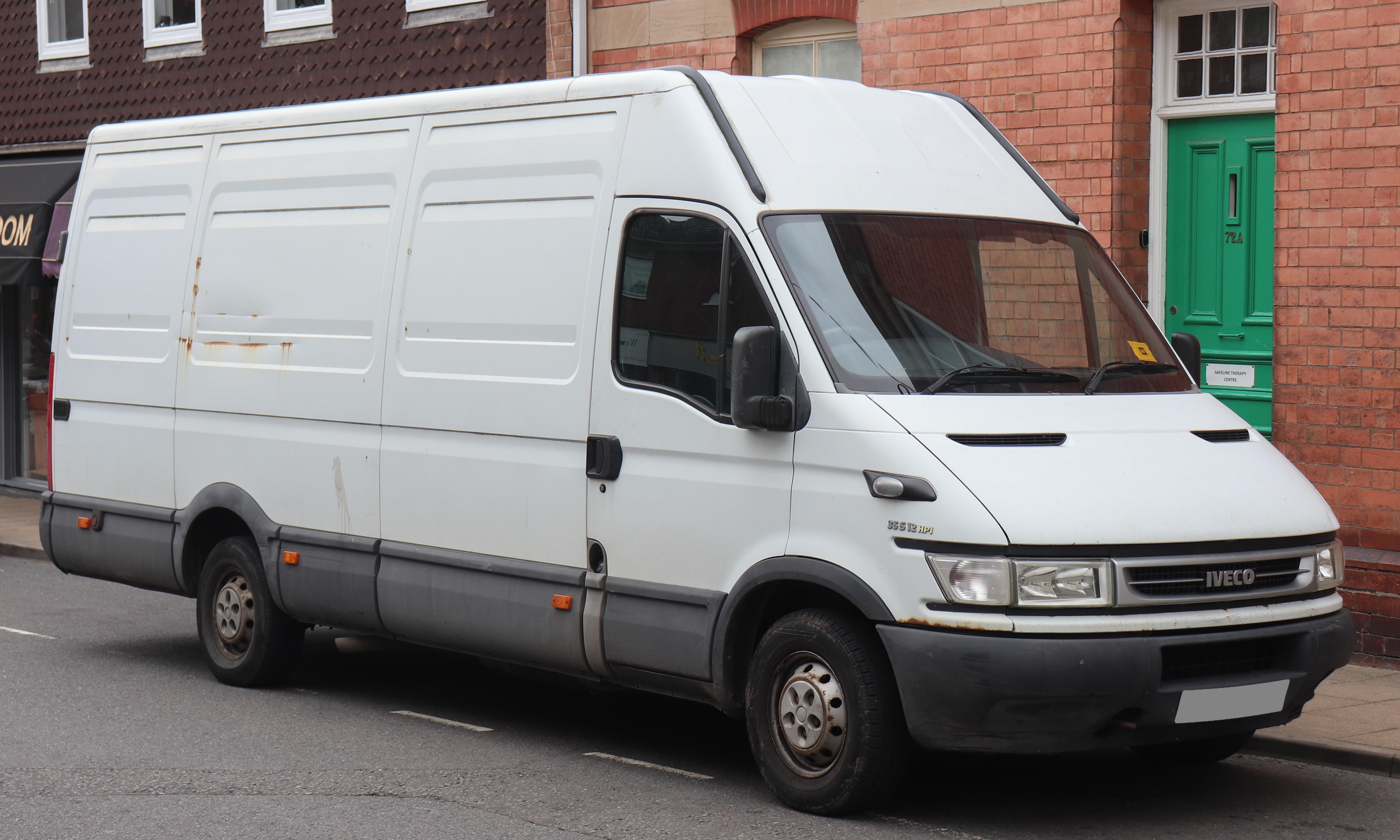 2006 Iveco Daily 35 S12 LWB HPi 2.3 Front Taken in Warwick